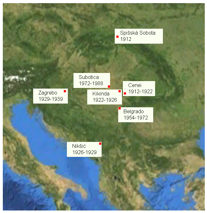 Succesive places where Tibor Sekelj (1912-1988) has lived in Europe